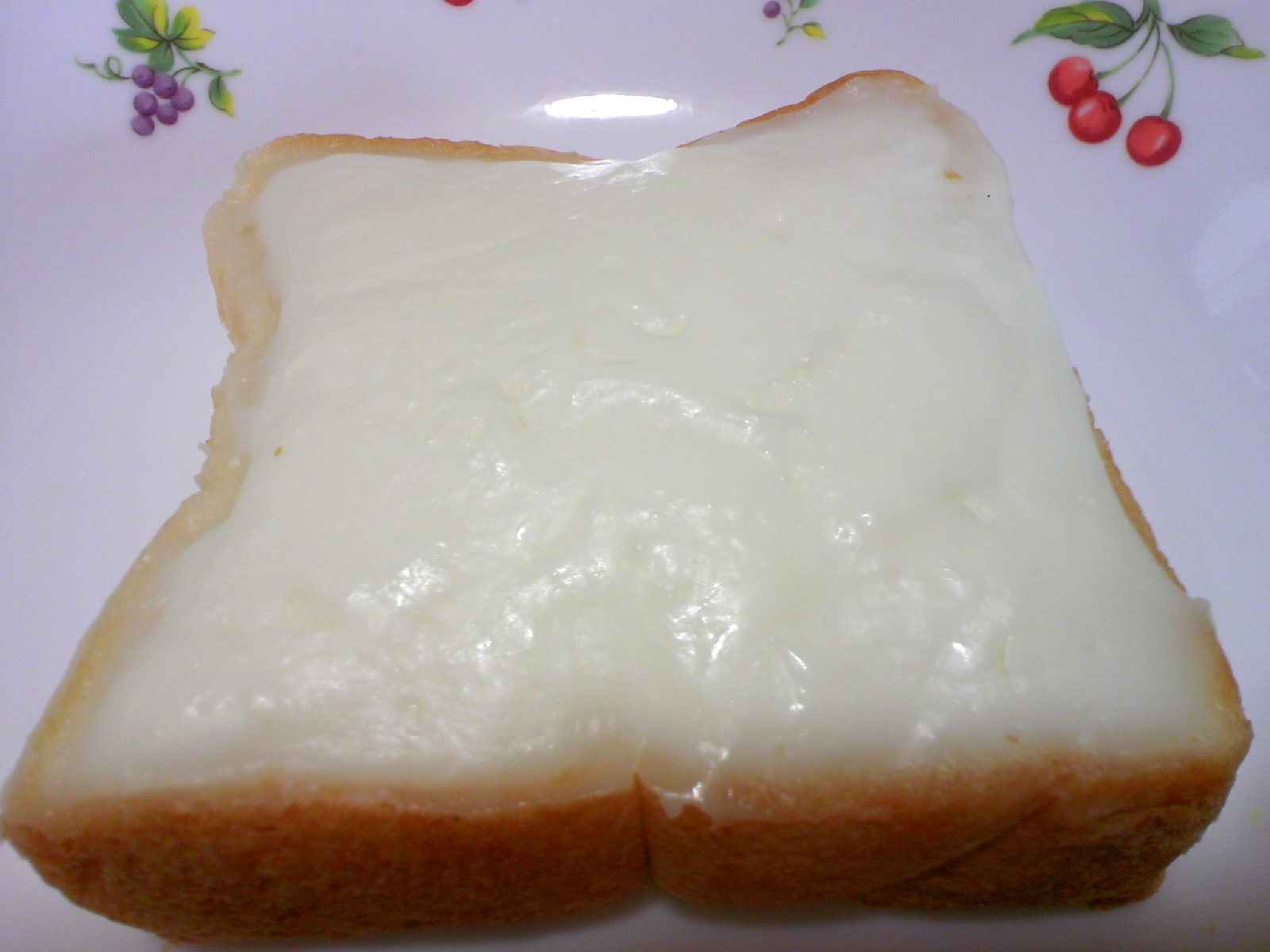 Cleambox